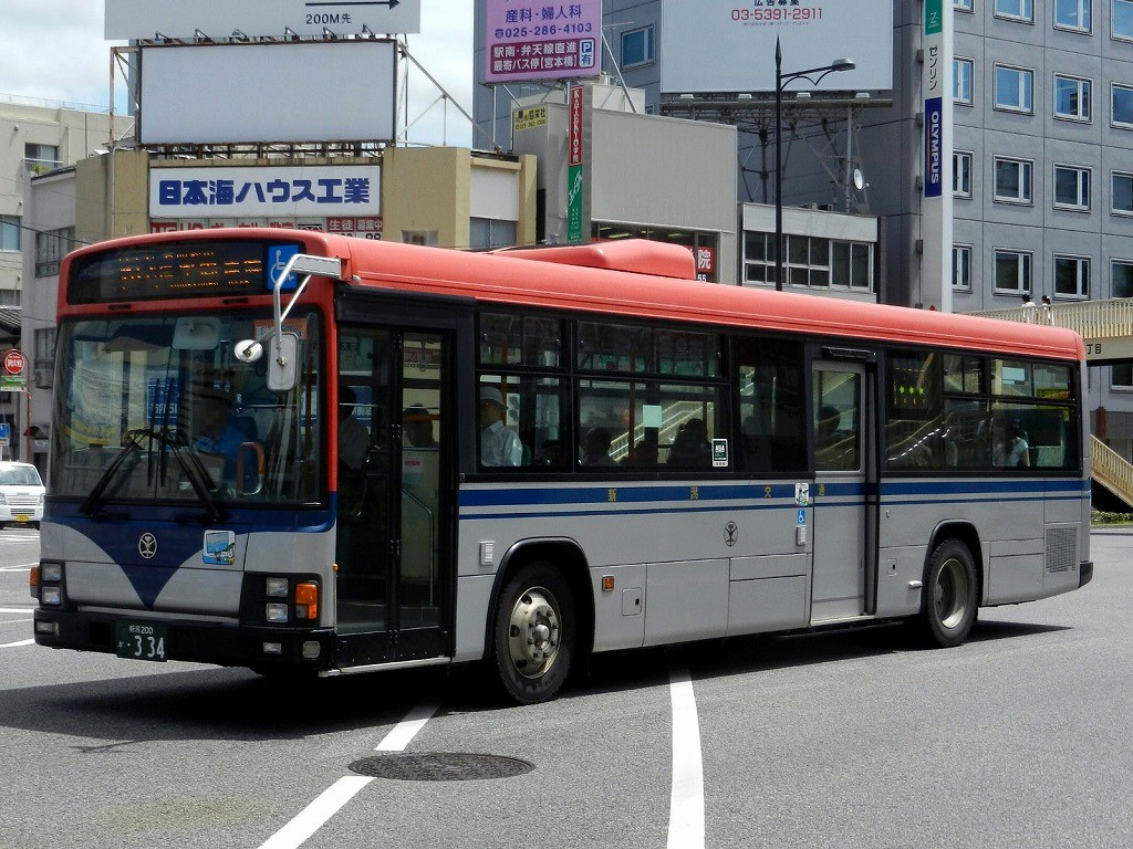 Niigata Kotsu Isuzu Erga (Onestep bus,KL-LV280Q1)